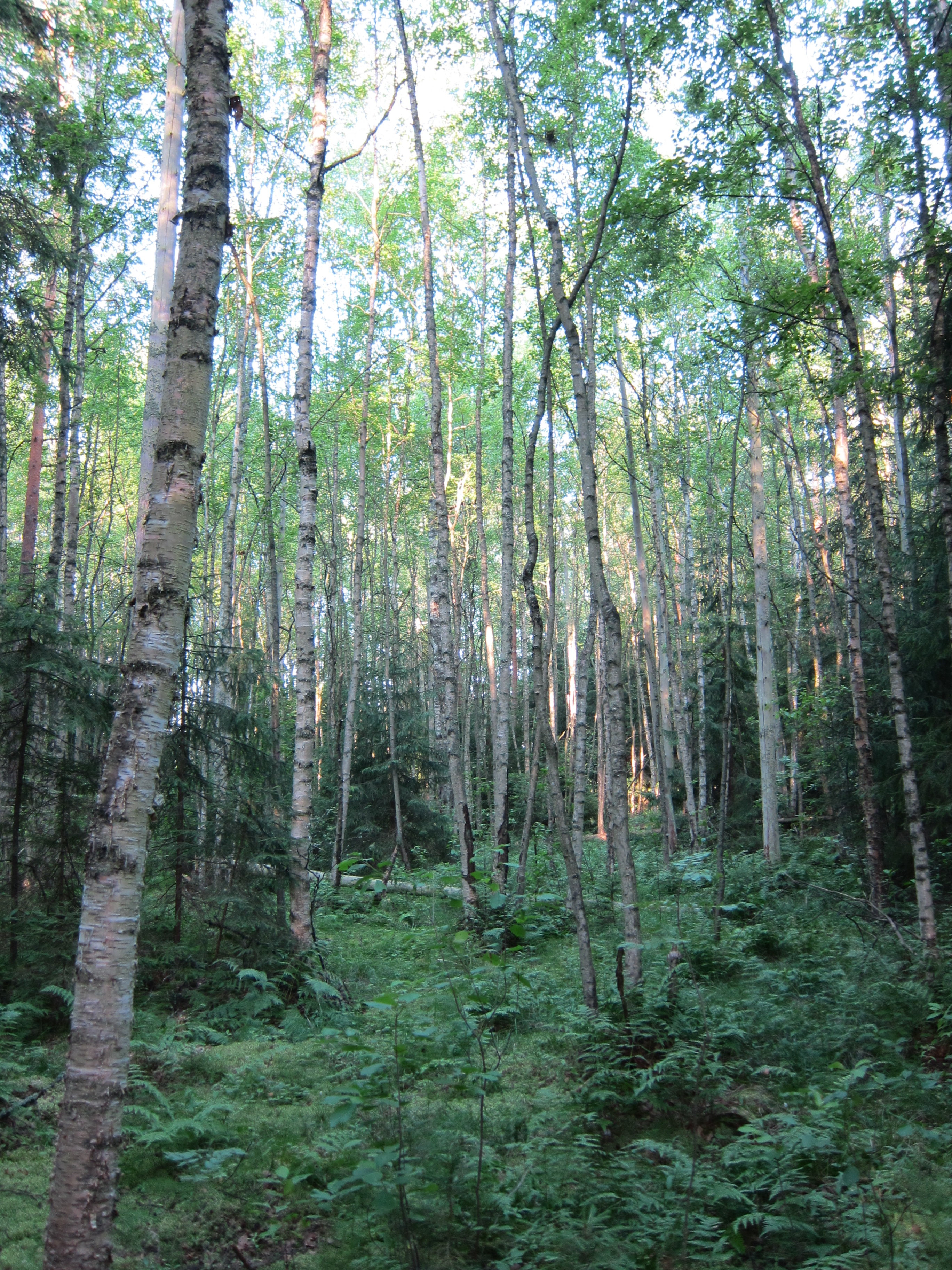 Birchs in the Pomponrahka. Pomponrahka became protected under the Nature Conservation Act in 1983 and it is part of a national mire protection programme. The mire complex, approximately 70 hectares in area, consists of the Isosuo-bog located further North, and Pomponrahka-bog further south. Pomponrahka is located in the south-west of Finland, city of Turku.